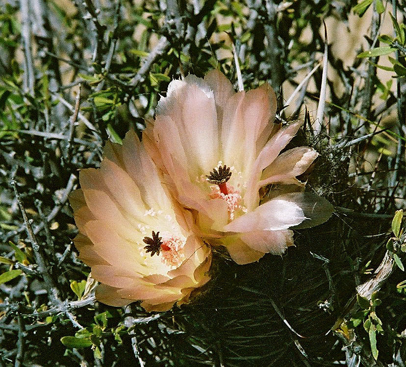 One of the Cola de zorro cacti from the Patagonian steppes of Argentina. In context at